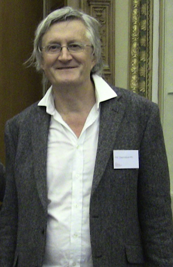 David Ian Attwell FRS at the Ada Lovelace editathon event at The library of the Royal Society, organised by Wikimedia UK and the Royal Society.